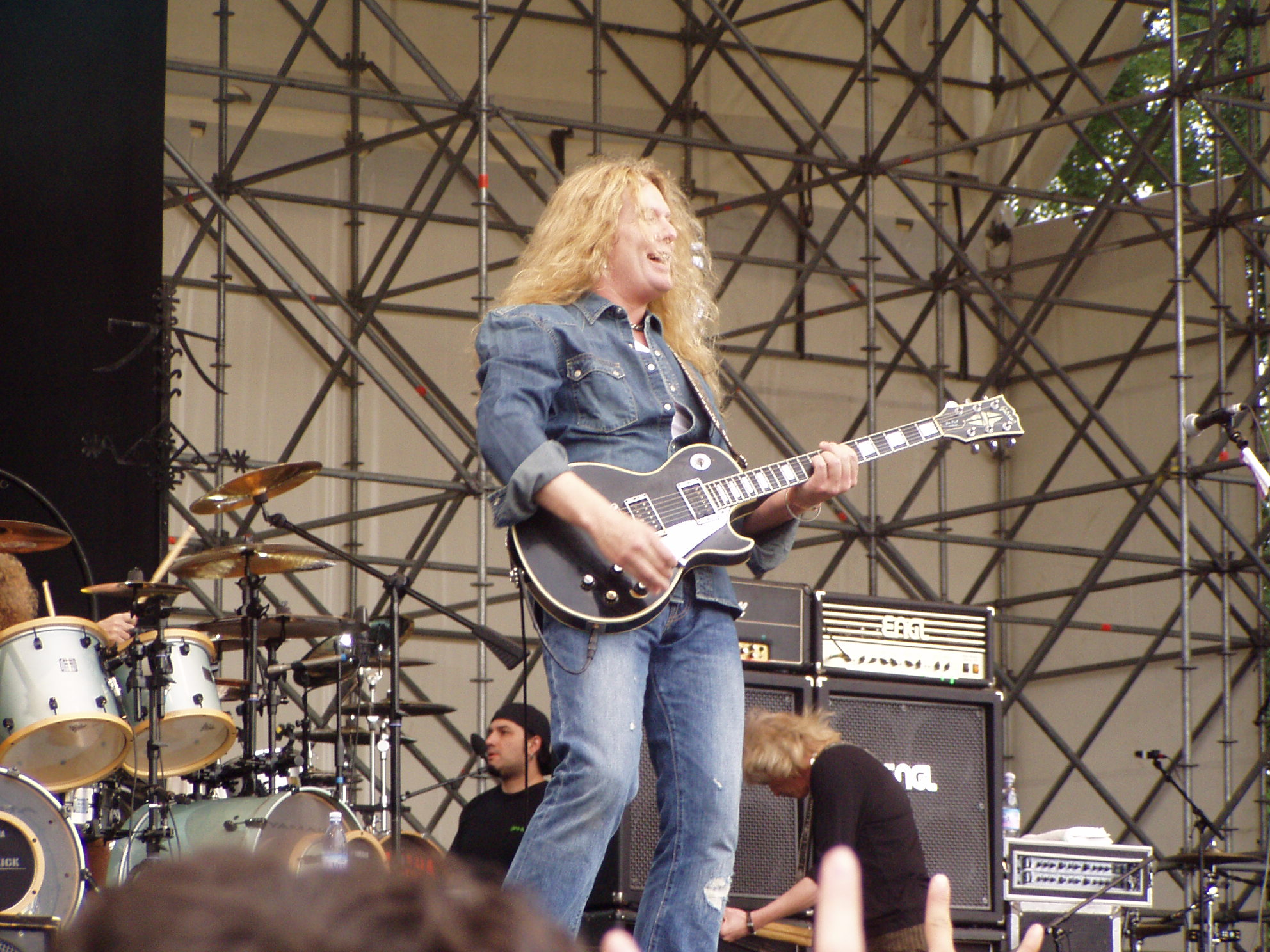 I Thin Lizzy al Gods of Metal 2007